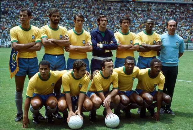 The Brazil national team that played at the 1970 FIFA World Cup. Front row left to right: Jairzinho, Rivelino, Tostao, Pelé, Paulo Cézar Caju. Back row left to right: Carlos Alberto, Brito, Piazza, Felix, Clodoaldo, Everaldo.